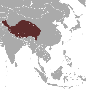 Woolly Hare (Lepus oiostolus) range